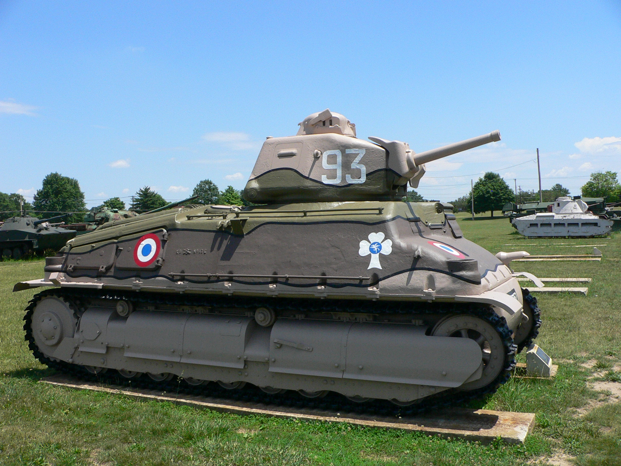 Picture taken by myself, Mark Pellegrini, at the United States Army Ordnance Museum (Aberdeen Proving Ground, MD) on June 12, 2007.